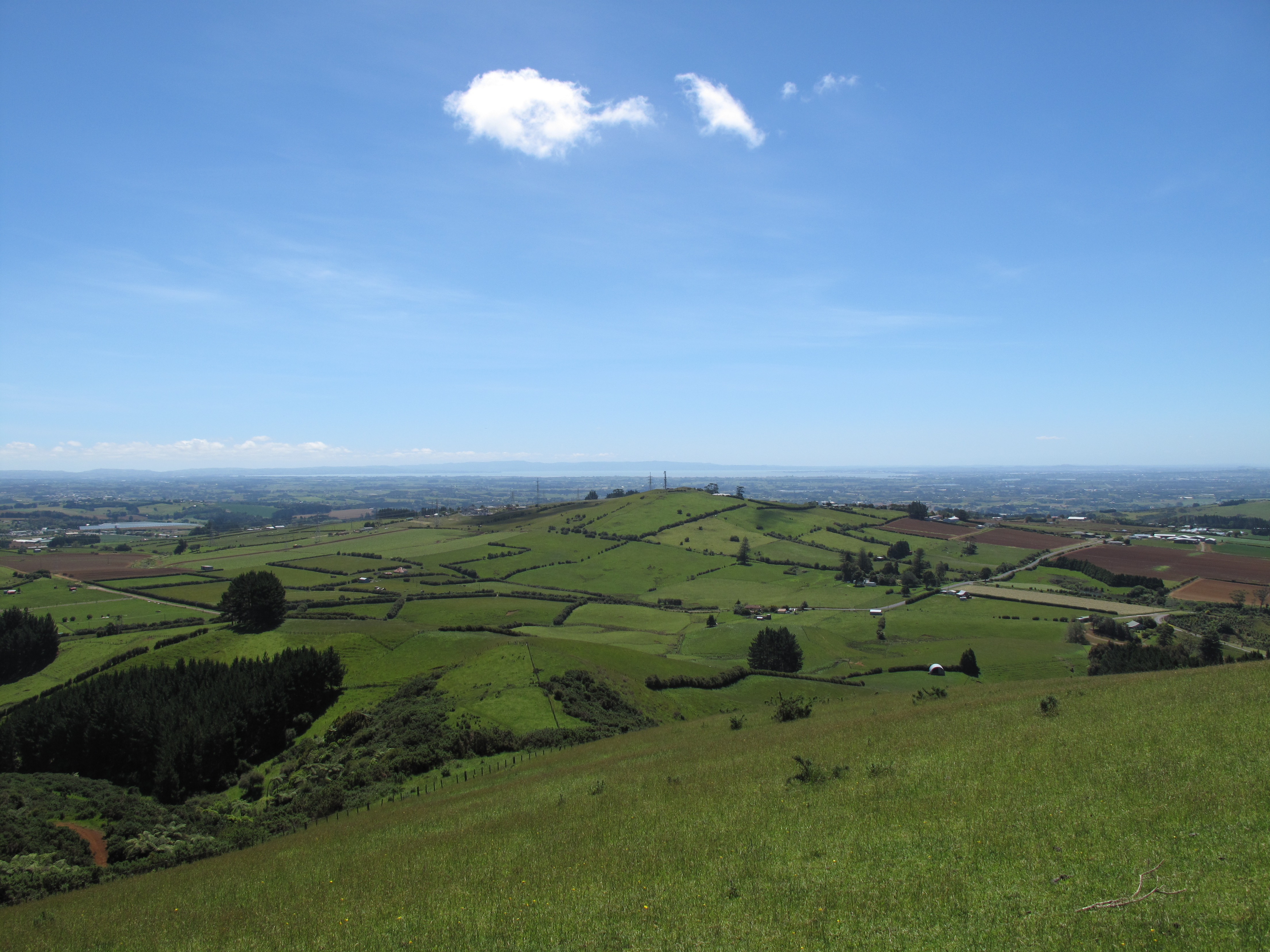 View from Mount Puketutu (part of the Bombay Hills)